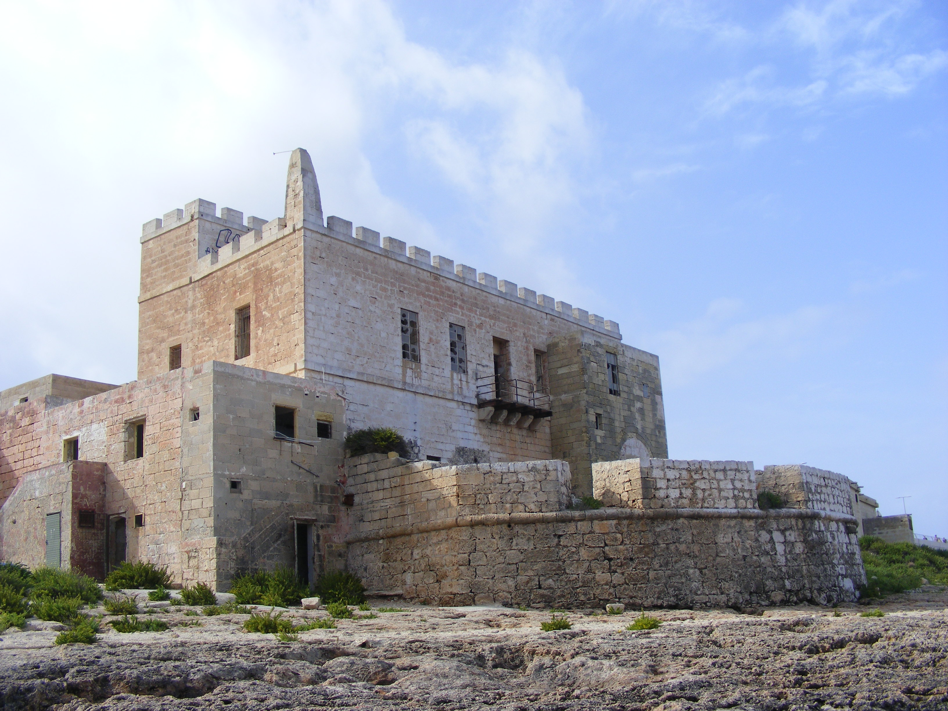 Wied Musa Battery, Marfa, Malta - view from the sea